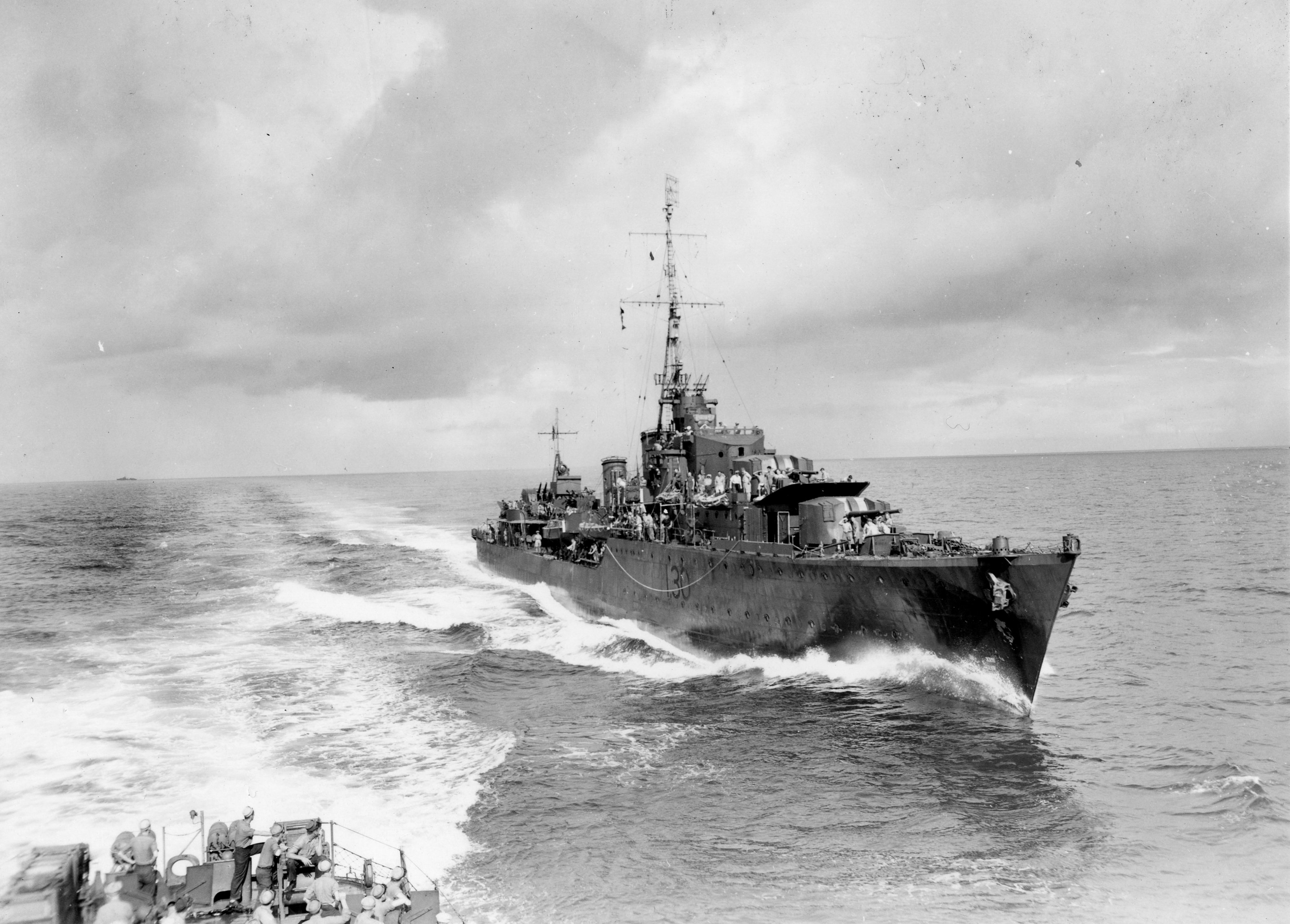 The Royal Australian Navy Tribal-class destroyer HMAS Arunta (I30) delivers mail to the U.S. Navy Fletcher-class destroyer USS Nicholas (DD-449) after the Battle of Kula Gulf in July 1943.